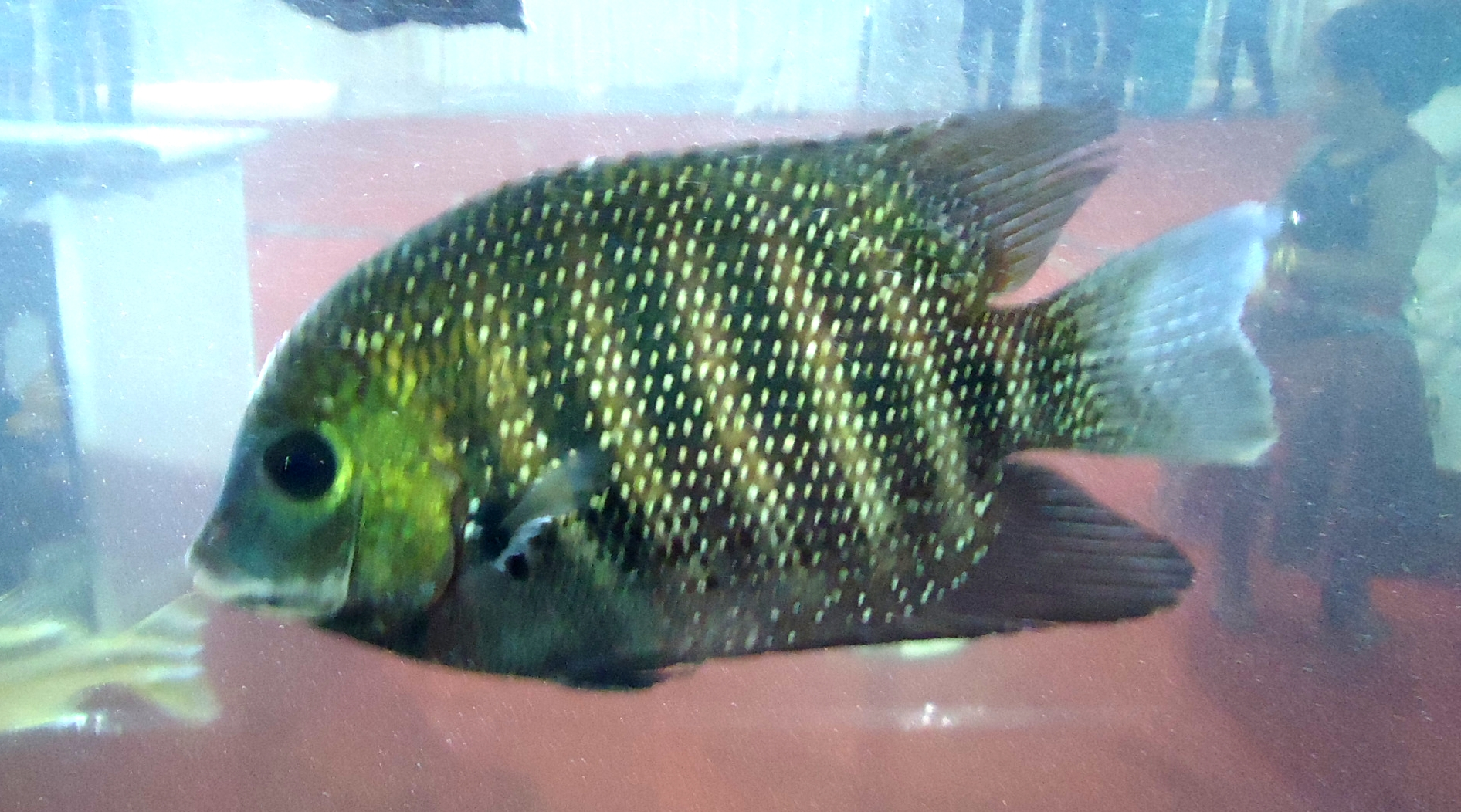 This media file is uploaded with Malayalam loves Wikimedia event - 2. Large Fish